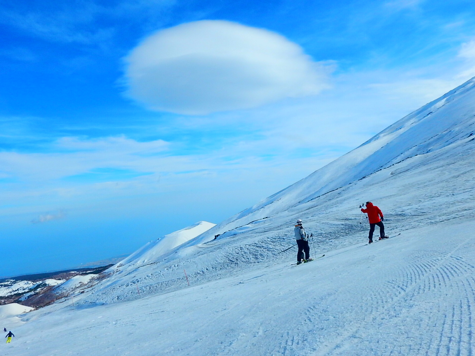 on Etna volcano it's possibile to ski in the two ski resorts of Etna north and Etna south looking the sea too.